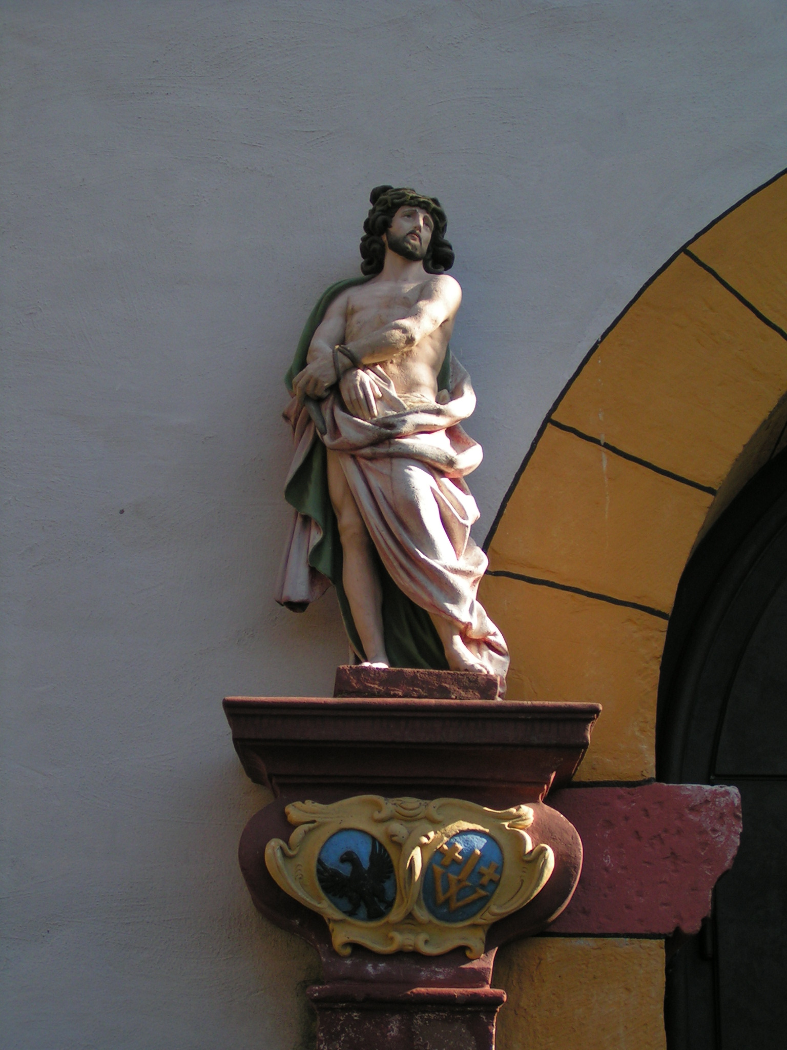 Kapelle Heiligkreuz, Trier, Germany